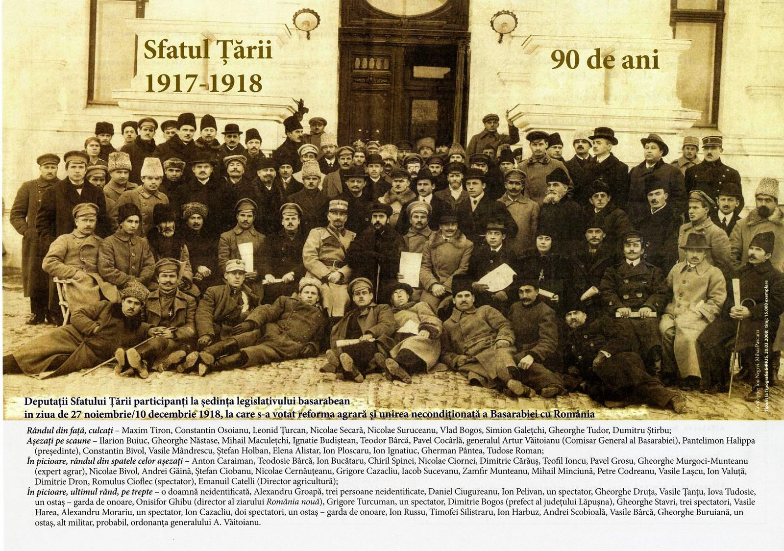 Sfatul Ţării members, on 10 December (OS 27 November) 1918, in front of Sfatul Ţării Palace Front row, lying: Maxim Tiron, Constantin Osoianu, Leonid Ţurcan, Nicolae Secară, Nicolae Suruceanu, Simion Galeţchi, Gheorghe Tudor, Dumitru Ştirbu Seated: Ilarion Buiuc, Gheorghe Năstase, Mihail Maculeţchi, Ignatie Budiştean, Teodor Bârcă, Pavel Cocârlă, general Artur Vătoianu (Comisar general al Basarabiei), Pantelimon Halippa (president), Constantin Bivol, Vasile Mândrescu, Ştefan Holban, Elena Alistar, Ion Ploscaru, Ion Ignatiuc, Gherman Pântea, Tudose Roman Standing behind the seated row: Anton Caraiman, Teodosie Bârcă, Ion Bucătaru, Chiril Spinei, Nicolae Ciornei, Dimitrie Cărăuş, Teofil Ioncu, Pavel Grosu, Gheorghe Murgoci-Munteanu (expert agrar), Nicolae Bivol, Andrei Găină, Ştefan Ciobanu, Nicolae Cernăuţeanu, Grigore Cazacliu, Iacob Suceveanu, Zamfir Munteanu, Mihail Minciună, Petre Codreanu, Vasile Laşcu, Ion Valuţă, Dimitrie Dron, Romulus Cioflec (spectator), Emanuil Catelli (director agricultură) Standing, last row, on stairs: o doamnă neidentificată, Alexandru Groapă, trei persoane neidentificate, Daniel Ciugureanu, Ion Pelivan, un spectator, Gheorghe Druţa, Vasile Ţanţu, Iova Tudosie, un ostaş-garda de onoare, Onisifor Ghibu, Grigore Turcuman, un spectator, Dimitrie Botgros (prefect al judeţului Lăpuşna), Gheorghe Stavri, Vasile Harea, Alexandru Morariu, un spectator, Ion Cazacliu, un ostaş-garda de onoare, Ion Russu, Timofei Silistraru, Ion Harbuz, Andrei Scobioală, Vasile Bârcă, Gheorghe Buruiană, un ostaş, alt militar, probabil orodonanţa generalului A.Vătoianu